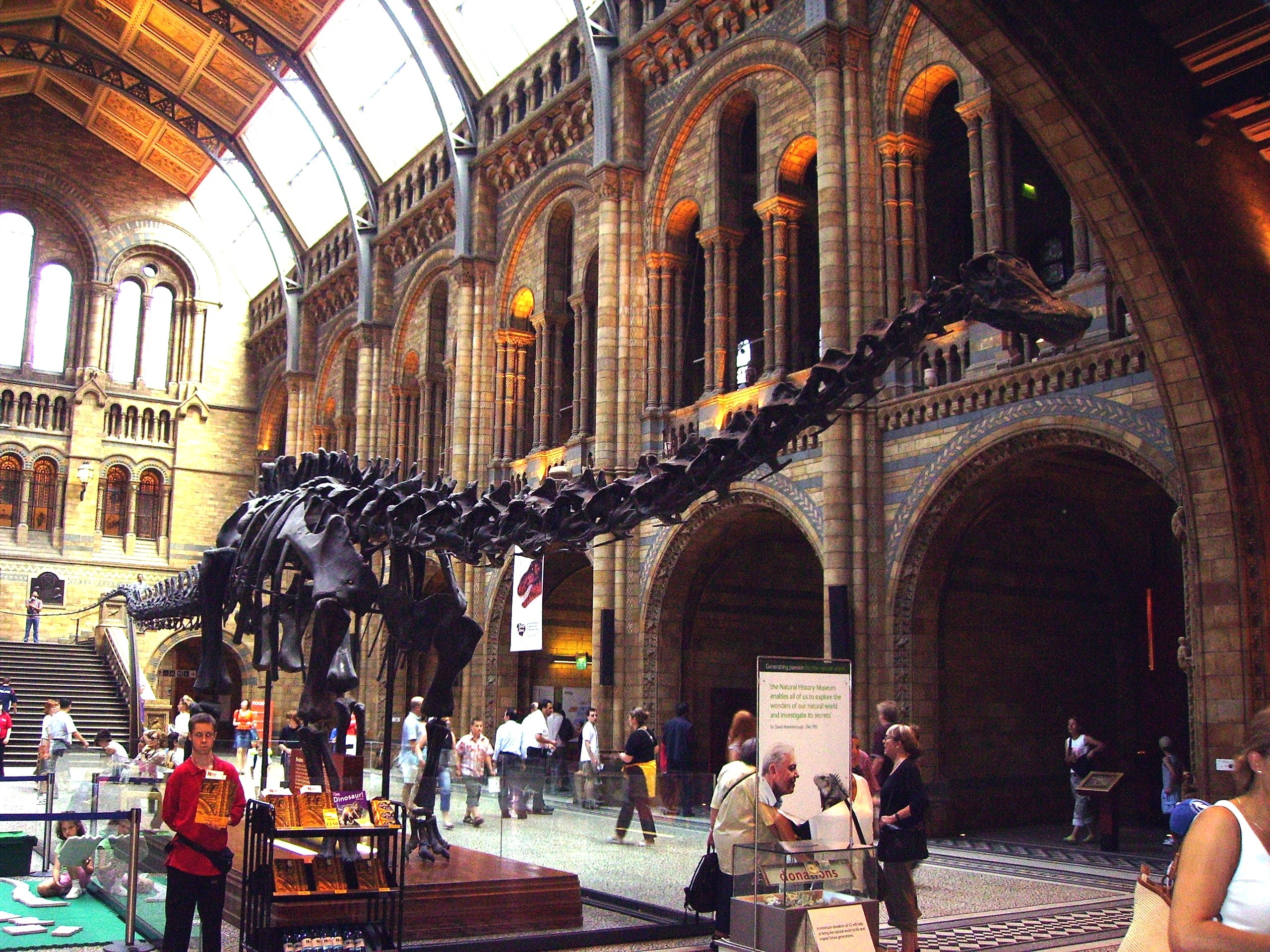 Diplodocus.